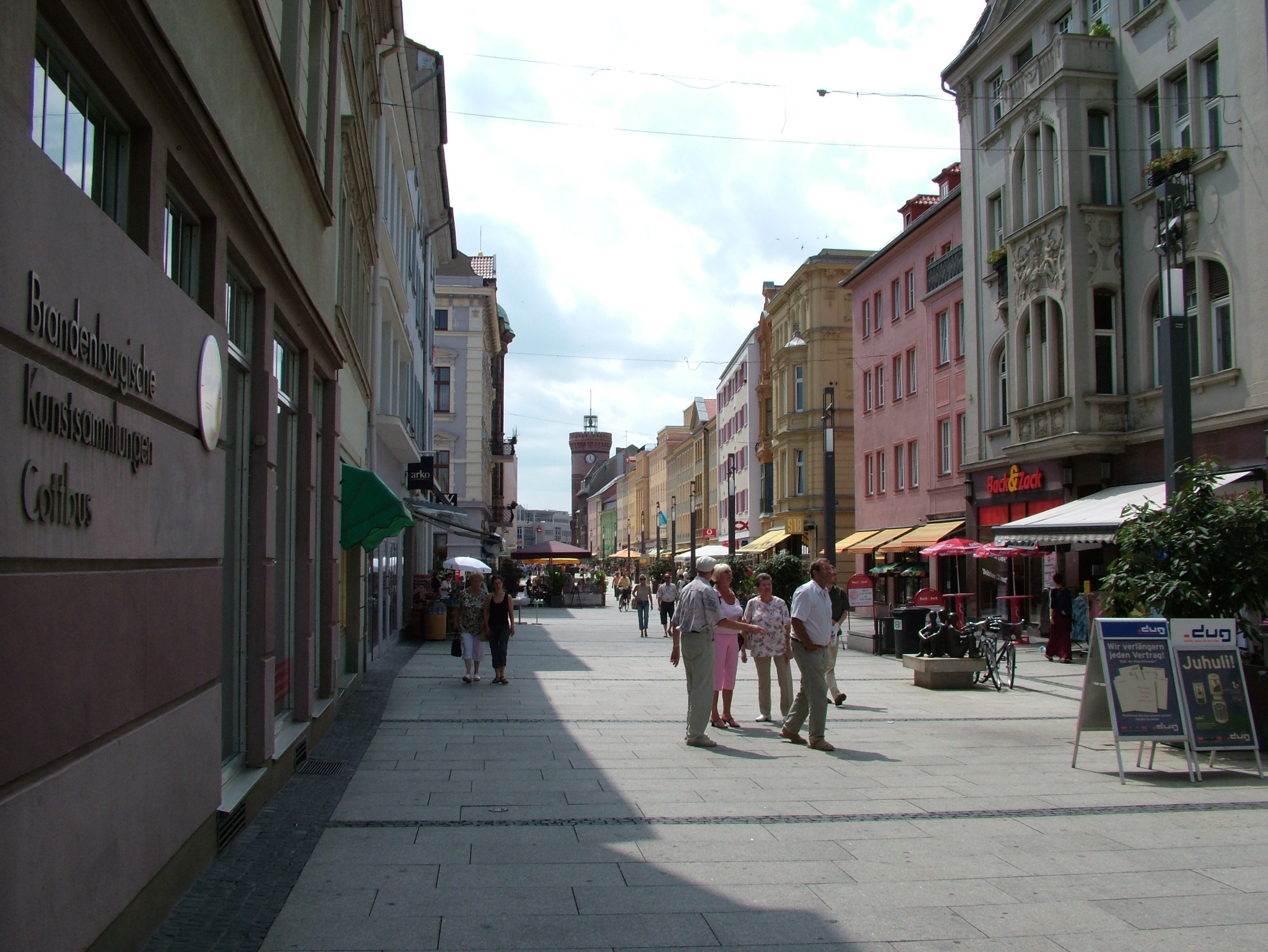 Pedestrian area in Cottbus/Germany